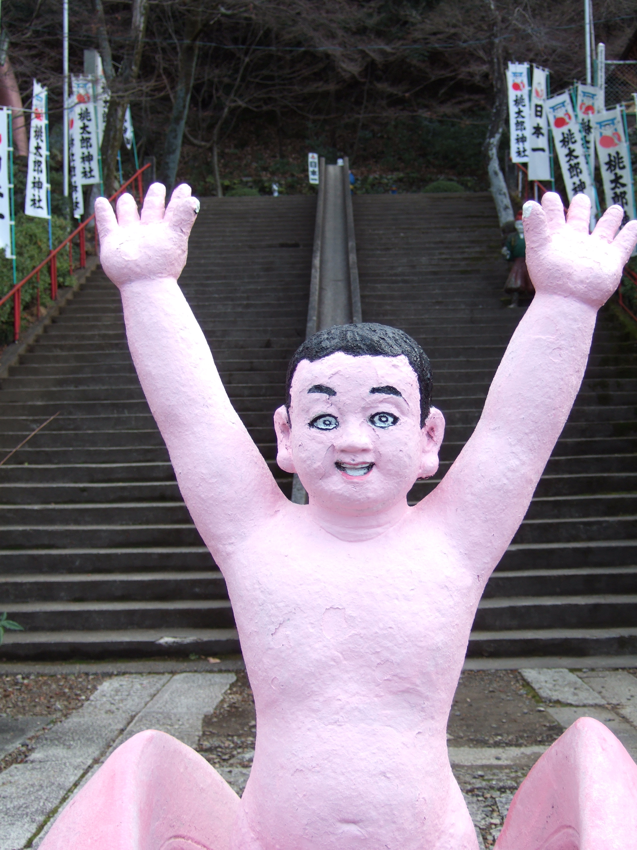 A statue of Momotarō outside the main gate of Momotarō-jinja, Inuyama